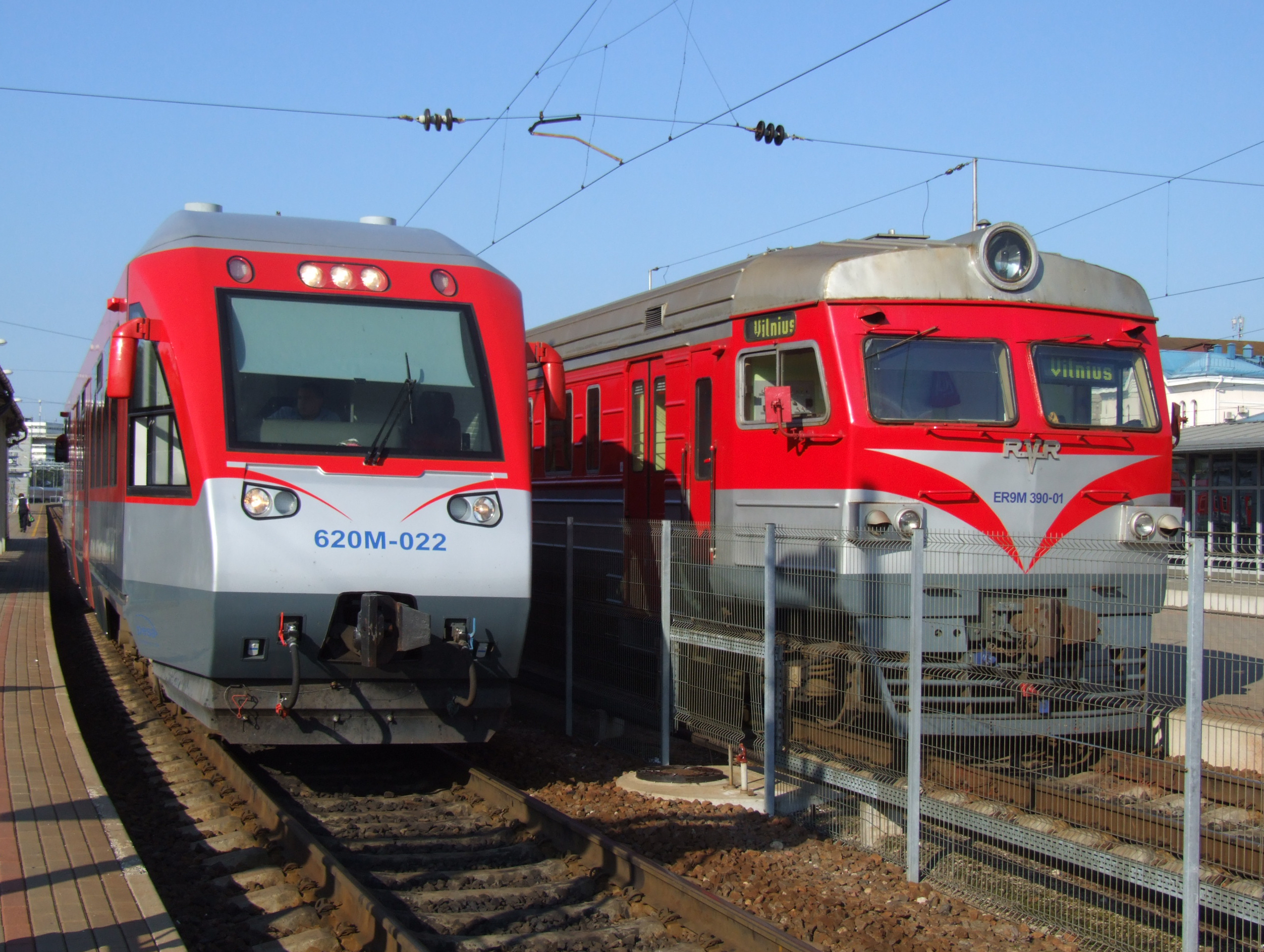 Trains in Vilnius (Wilno, Wilna) station. On the left PESA 620 M, on the right ER9M electric trainset